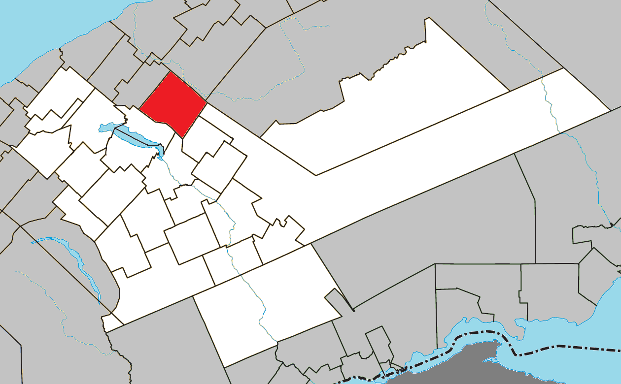 Location of Saint-Vianney, Quebec within La Matapédia Regional County Municipality.